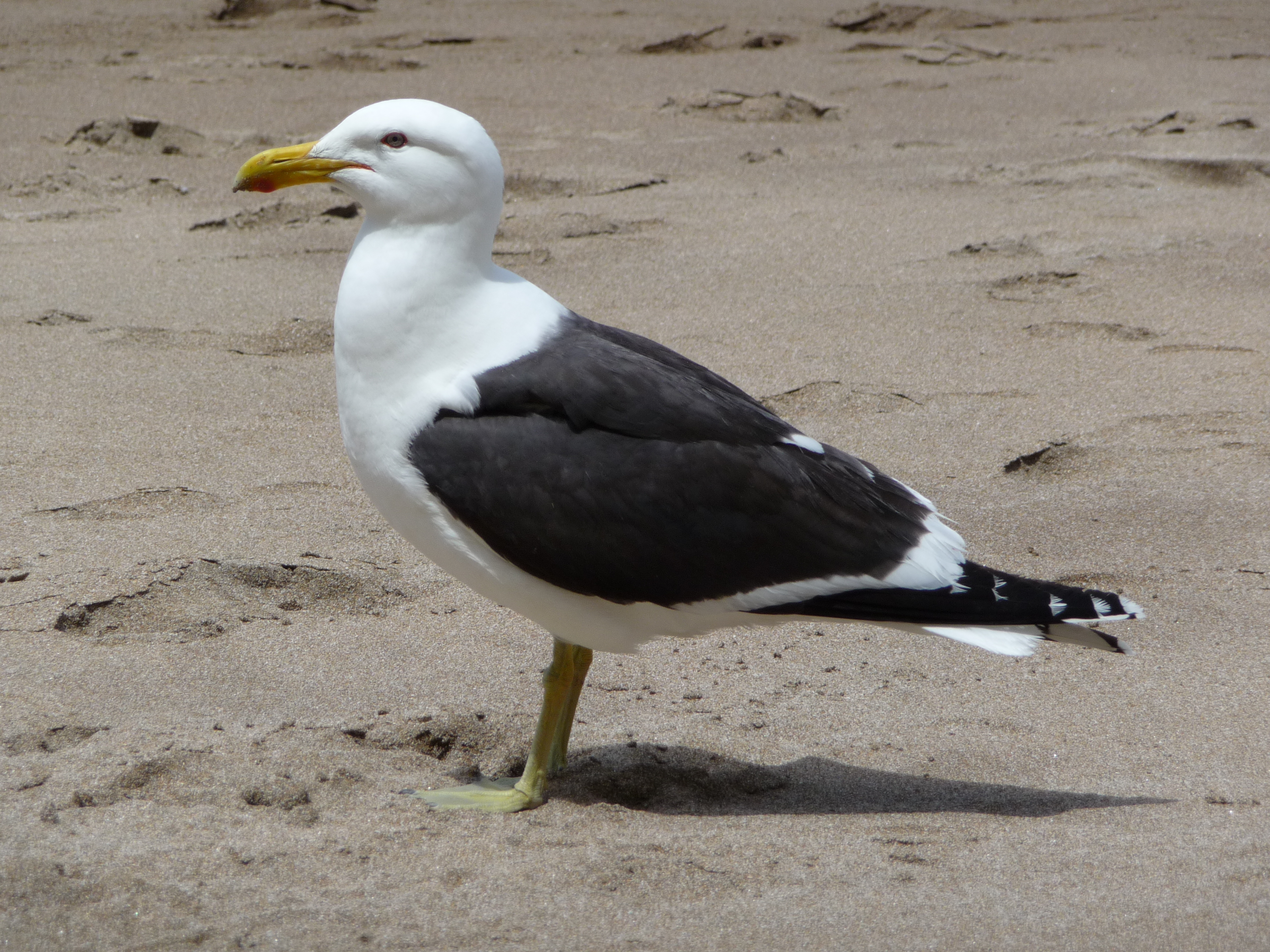 Kelp Gull on Hot Water Beach, Coromandel Peninsula, New Zealand.